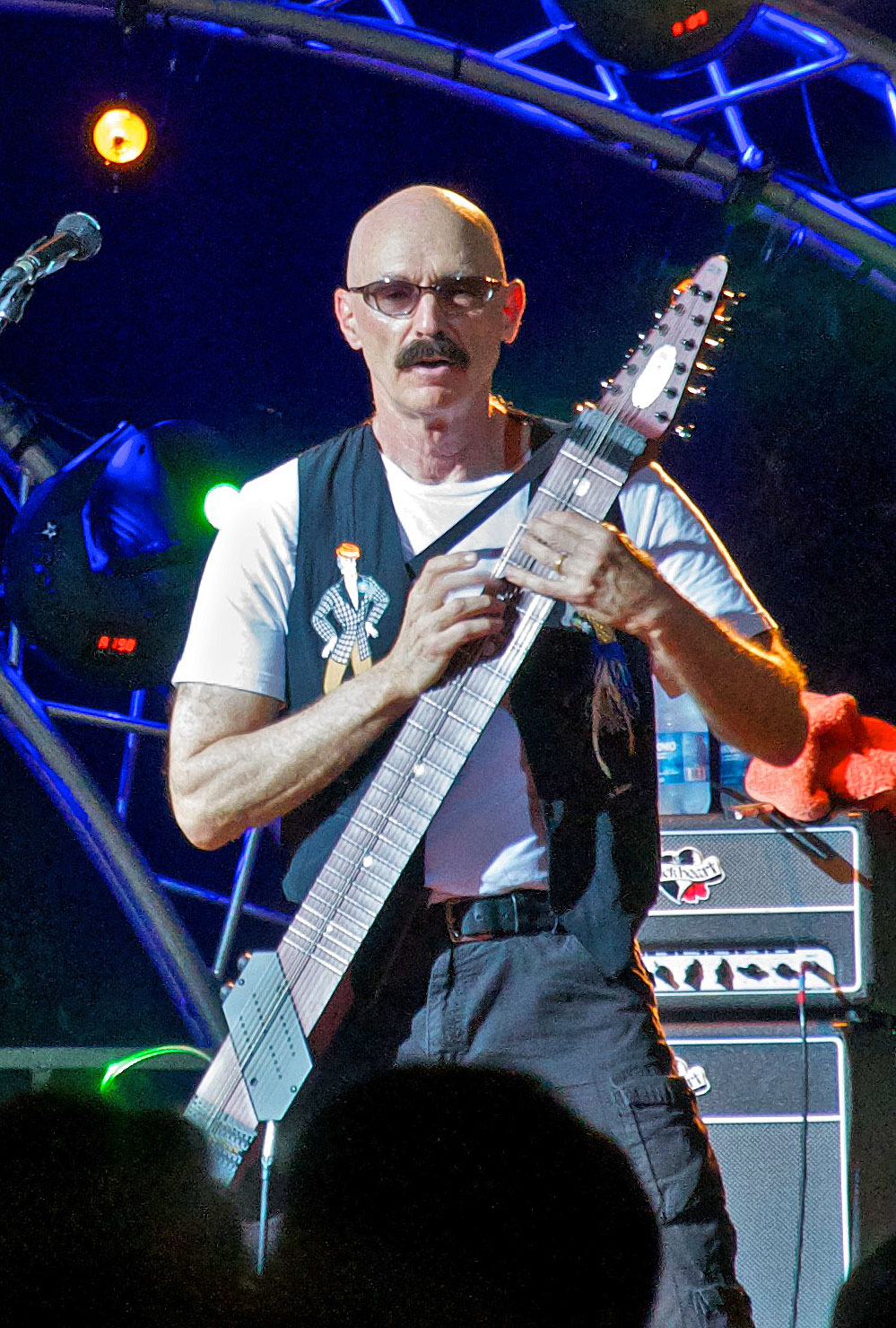 Tony Levin performing on stage at Misinto (MB) Italy